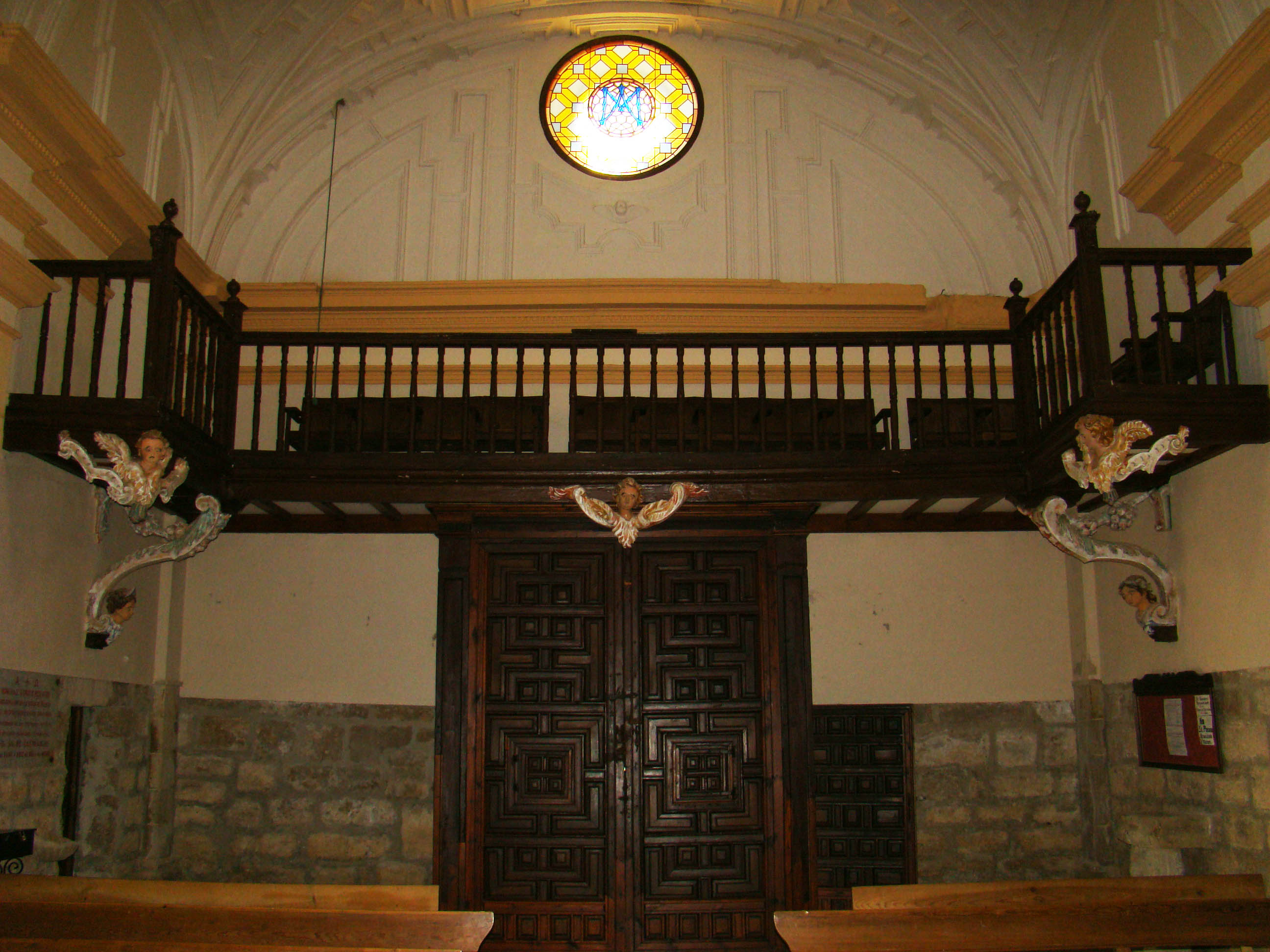 Chancel in the hermitage of Castilviejo (Medina de Rioseco in Valladolid, Spain). Work by Pedro de Sierra, 18th century.